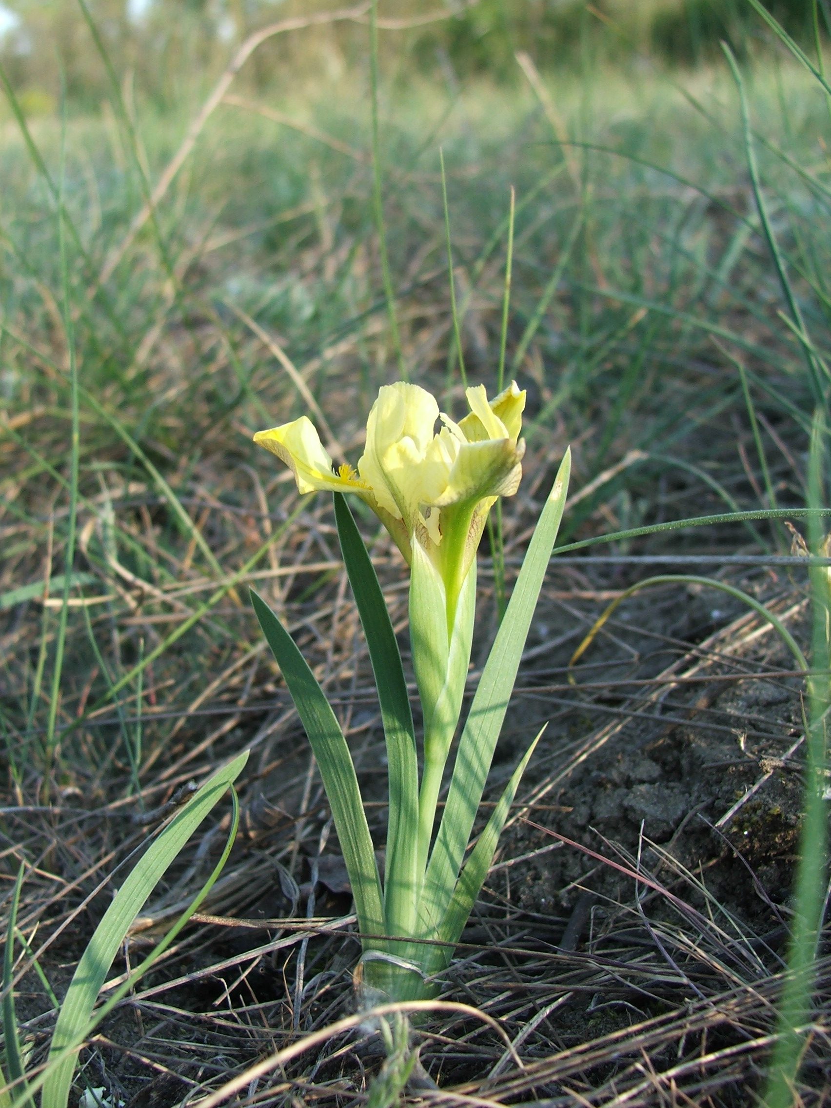 Iris humilis subsp. arenaria syn. Iris arenaria. Szentendrei-sziget, Hungary.